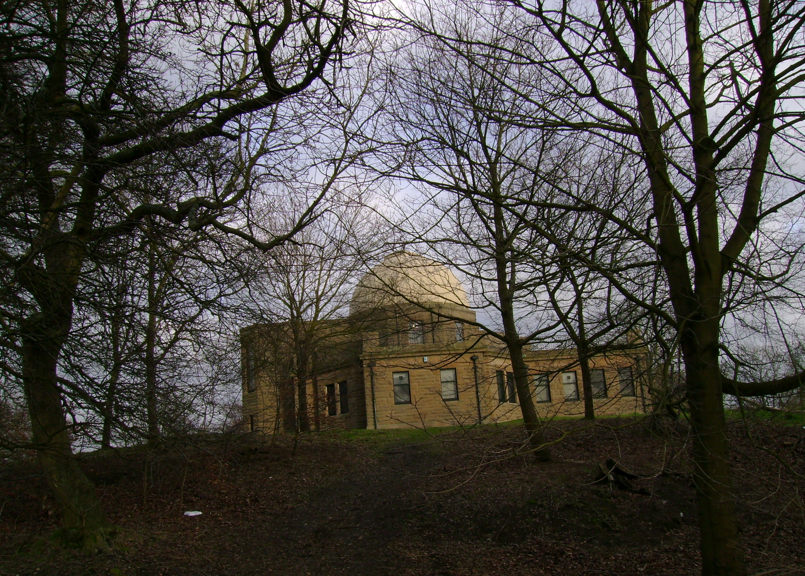 Mills Observatory